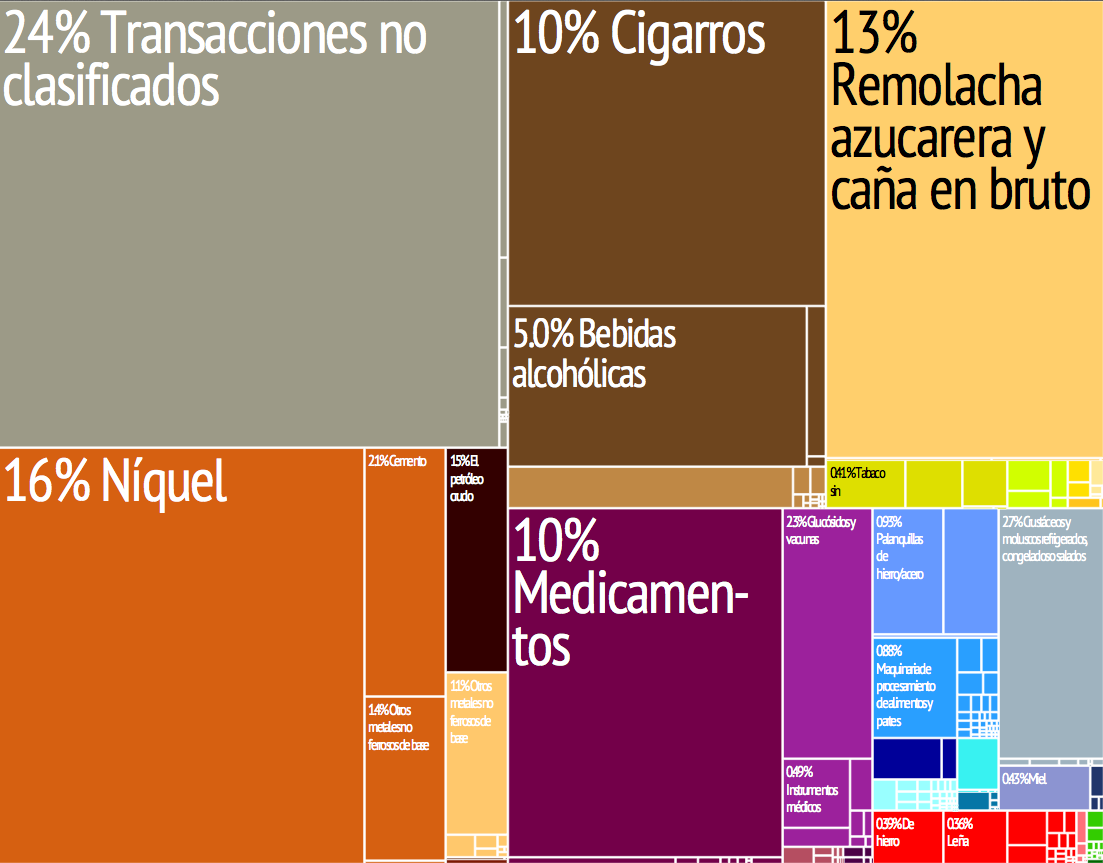 Representación gráfica de los productos de exportación del país en 28 categorías codificadas por color. Cada recuadro de color representa un producto y su tamaño es proporcional a la participación que ese producto representa dentro del total de las exportaciones del país.